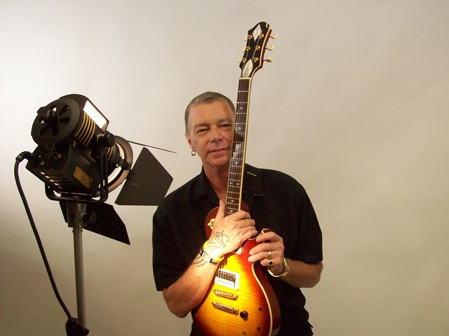 Steven Springer